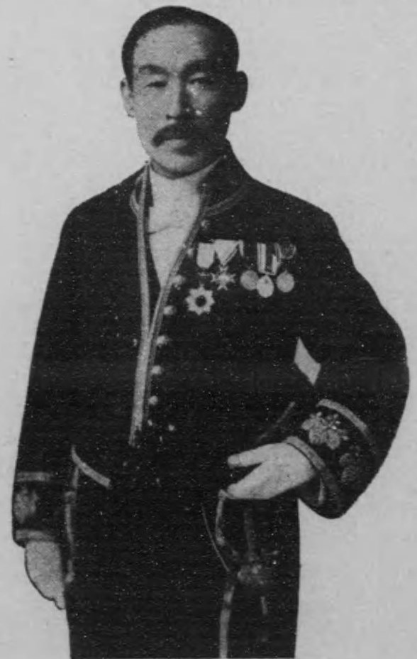 Murakami Susumu, a businessman and politician of Japan.